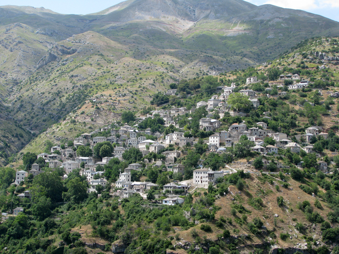 Historical village of Epirus, Greece, with Aromanian population, located 52 km southeast of Ioannina at an altitude of 1200 m, on the mountain Peristeri. It is built on a steep slope and represents an example of traditional architecture.